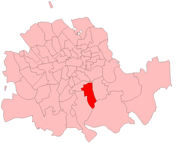 A map of Peckham constituency within the Metropolitan Board of Works area, as it existed from 1885 to 1918.